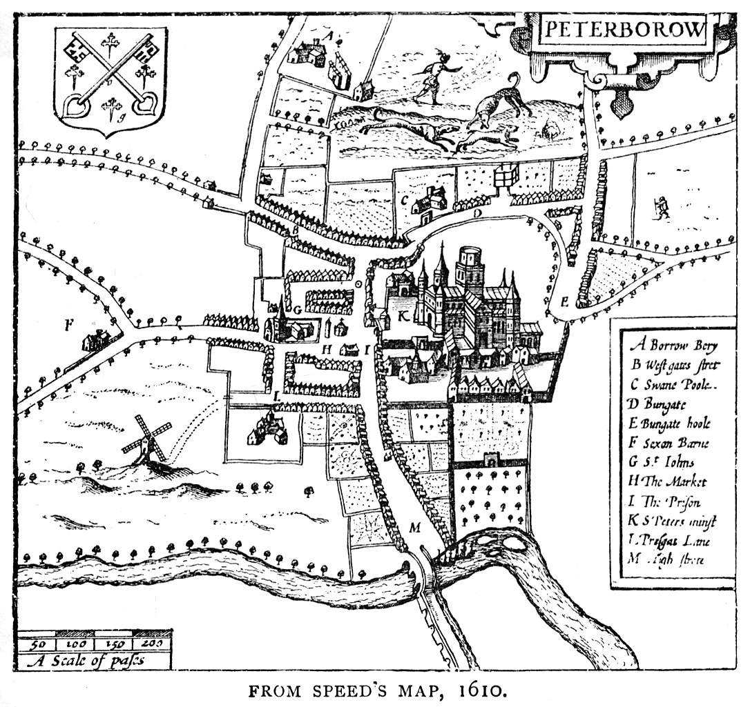 Map of Peterborough c. 1610 on Speed's manp